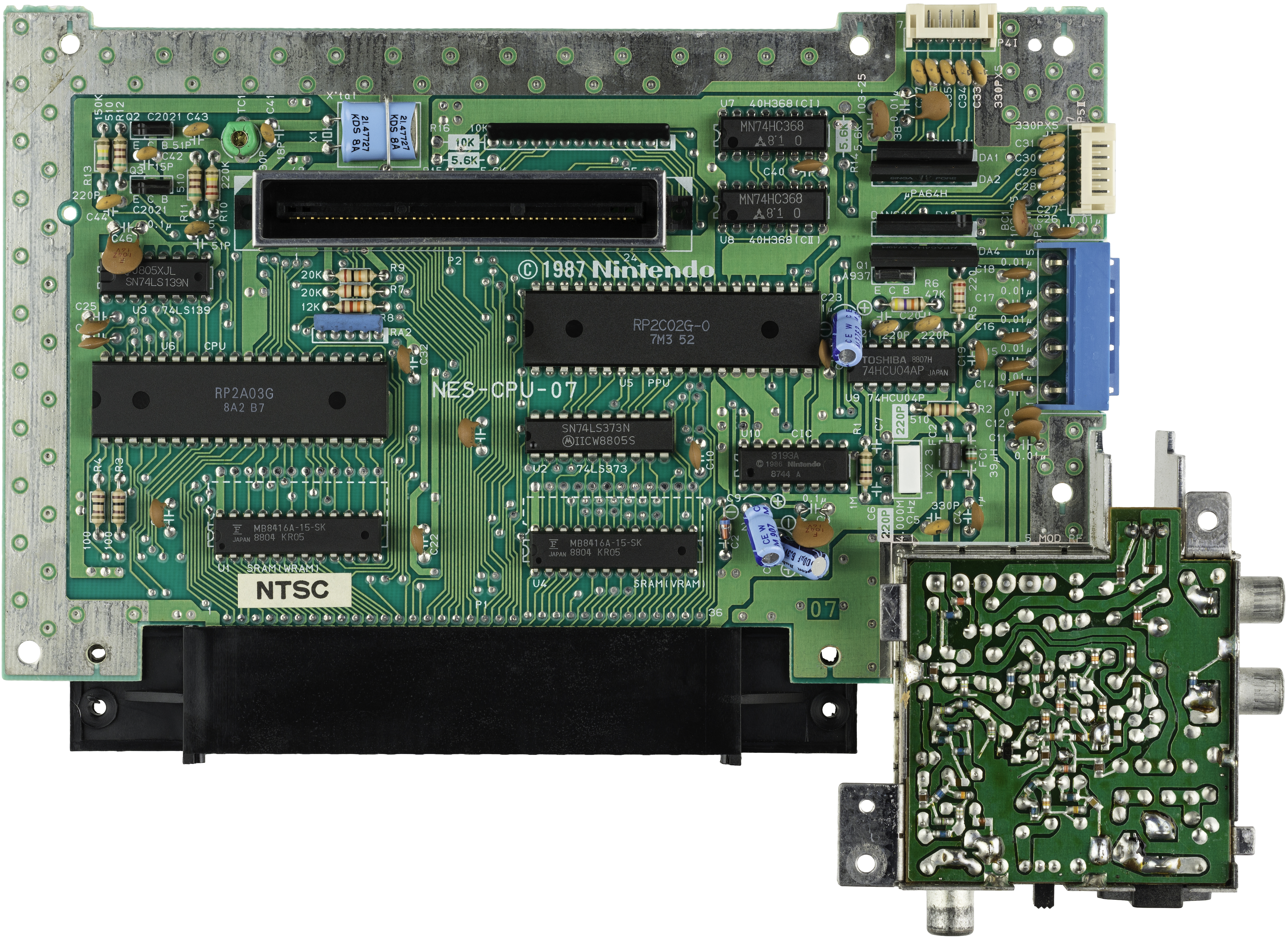 The motherboard of the Nintendo Entertainment System video game console, also known as the NES. The system is powered on a Ricoh-produced processor based on the MOS 6502 processor. The other notable chip is the Ricoh-produced Picture Processing Unit (PPU), a custom chip that powers the consoles video out. Also notable is an expansion slot on the board, which wasn't utilized.